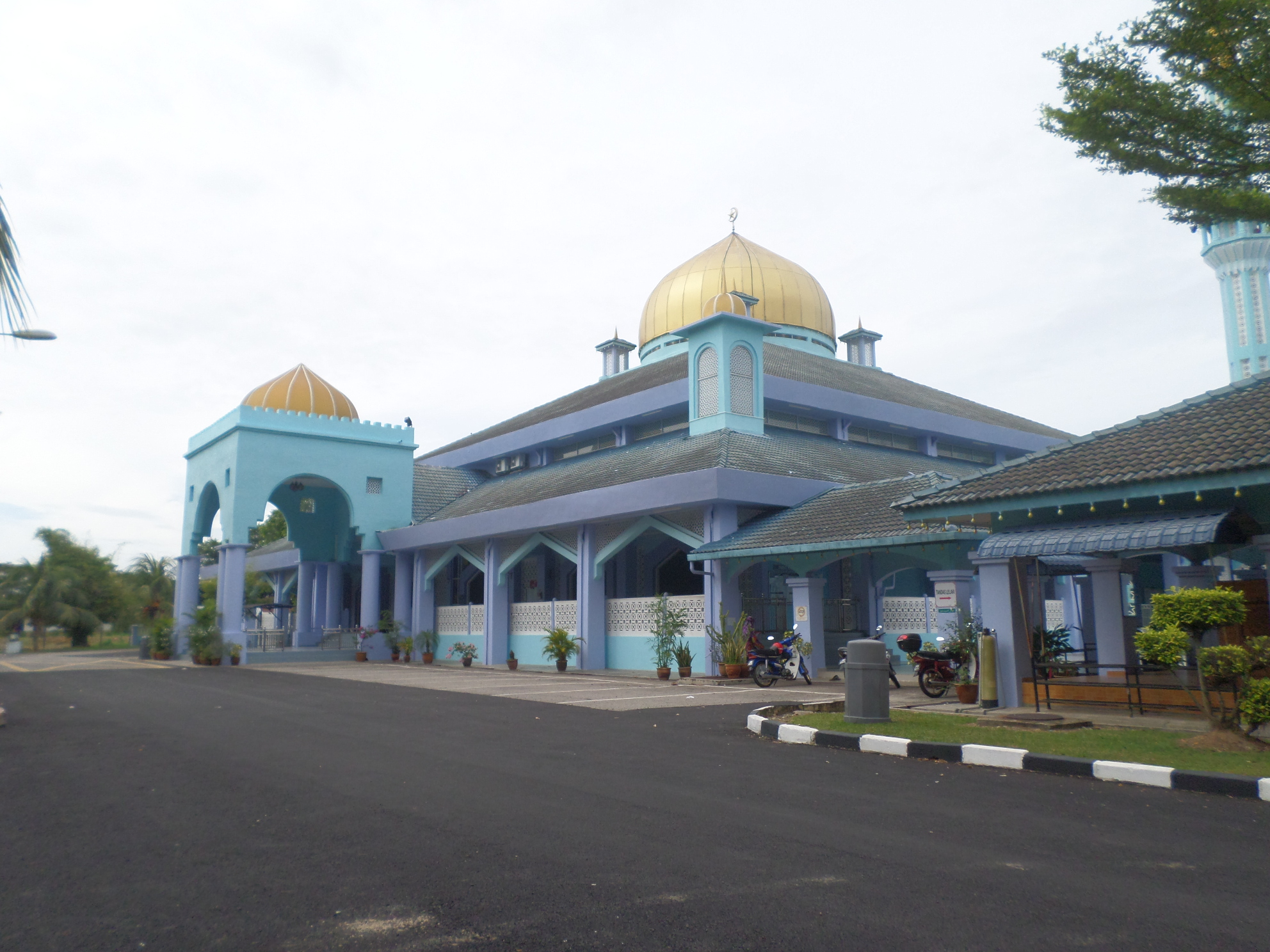 Tangkak Jamek Mosque, Tangkak, Johor, Malaysia